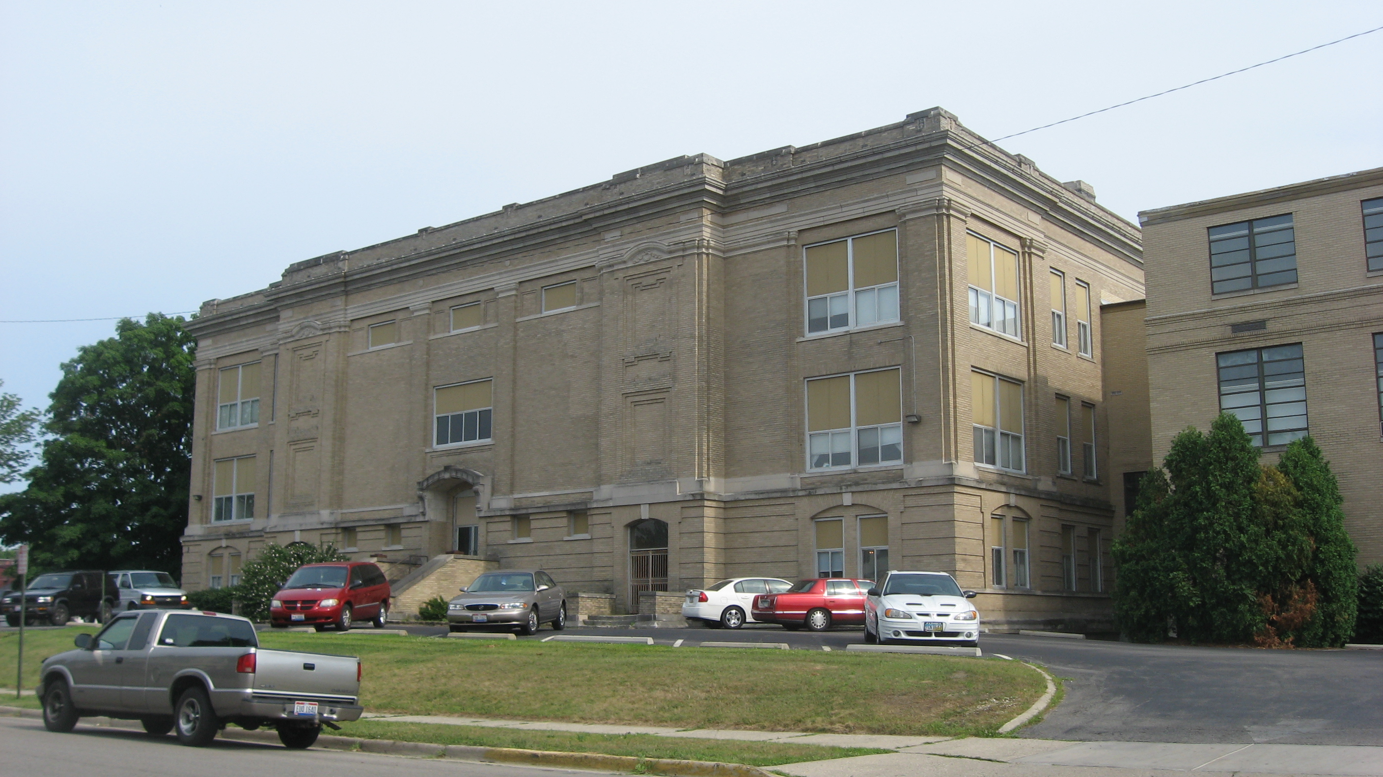 Front of the Old Piqua High School, located at 316 N. College Street in Piqua, Ohio, United States. Built in 1914, it is listed on the National Register of Historic Places.